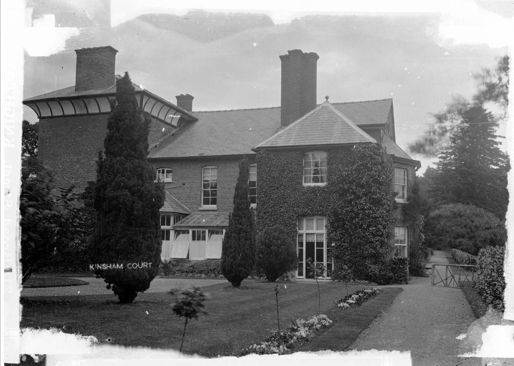 Abstract: Kinsham Court